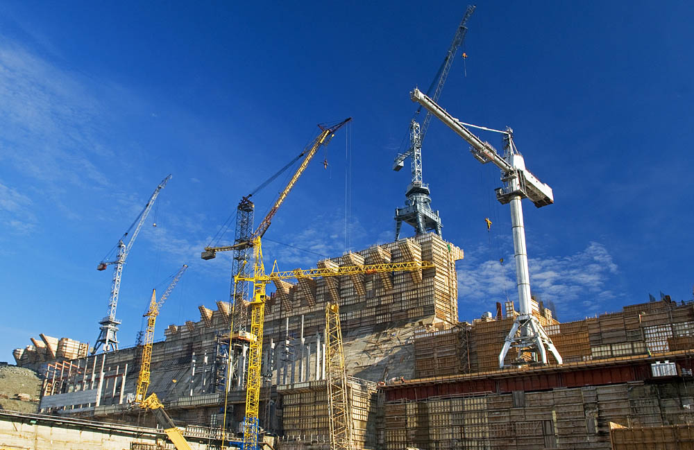 Construction of Boguchanskaya HPP. Industrial photography, in 2010